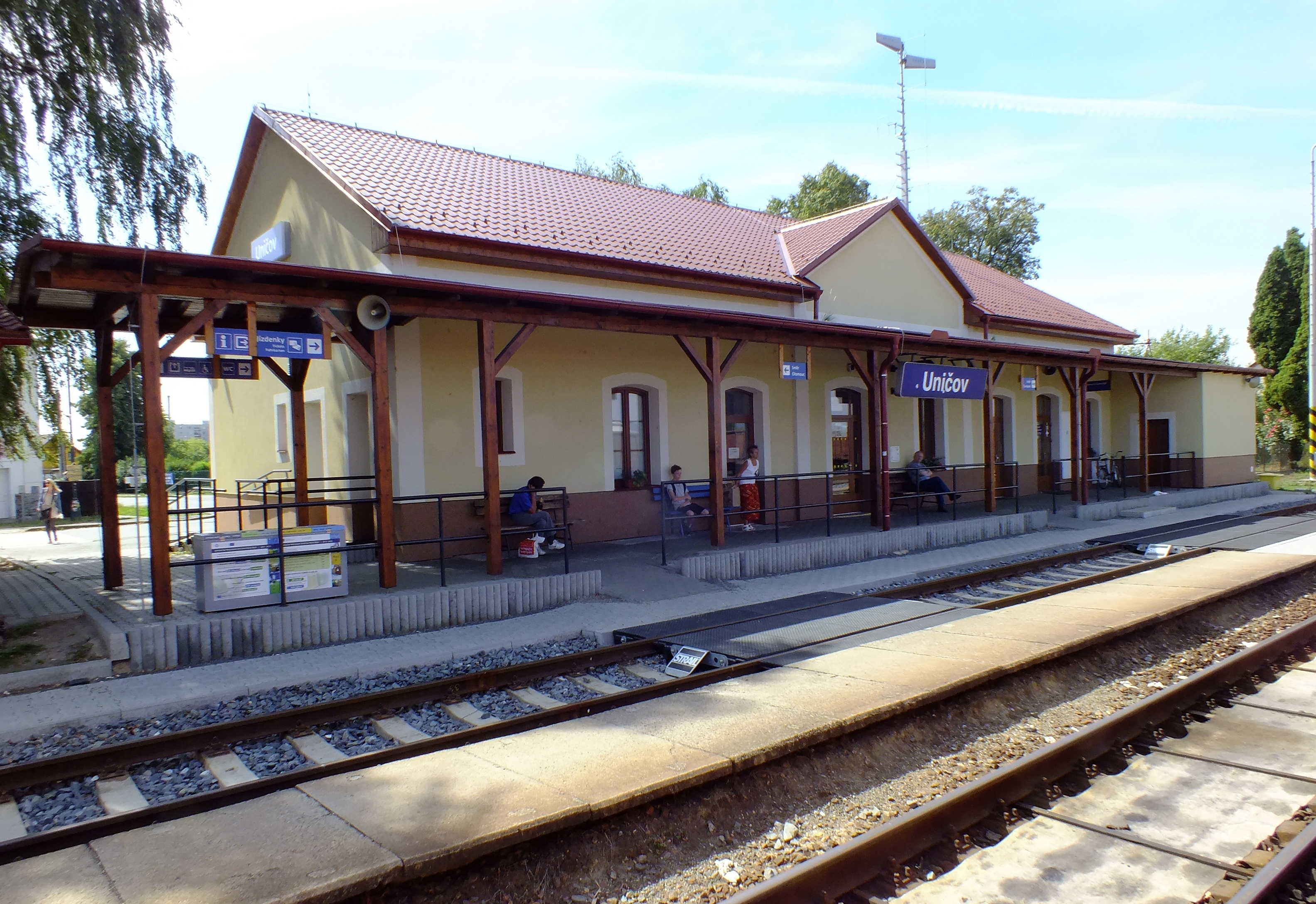 Uničov, Olomouc District, Czechia.